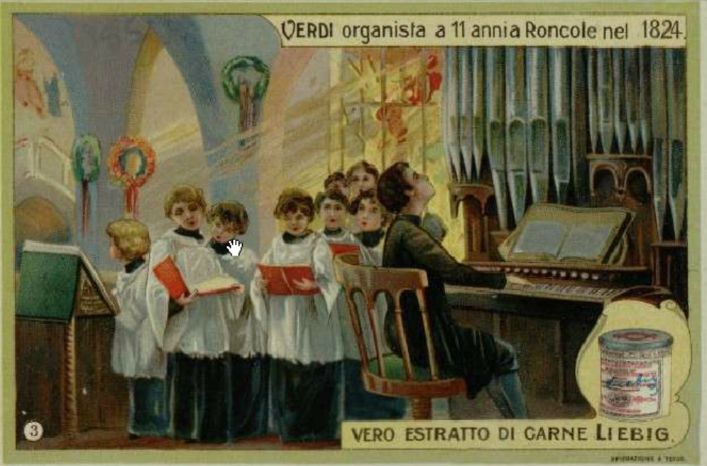 Verdi-11-as organist in Busseto. Liebig company trading cards.